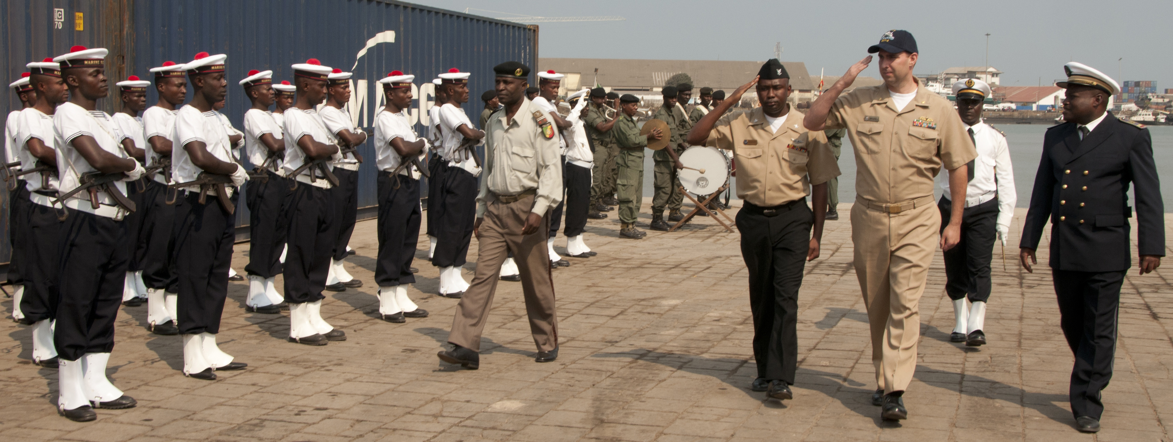 PORT-NOIRE, Republic of Congo (July 17, 2011) Lt. Cdr. Charles Eaton, officer in charge of High Speed Vessel Swift, salutes members of the Congolese military during a welcoming ceremony for Africa partnership Station 2011. Africa Partnership Station is an international security cooperation initiative, facilitated by Commander, U.S. Naval Forces Europe-Africa, aimed at strengthening global maritime partnerships through training and collaborative activities in order to improve maritime safety and security in Africa. (U.S. Navy photo by Mass Communication Specialist 3rd Class Ian Carver/Released)